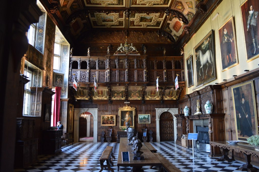 Interior of Hatfield House.